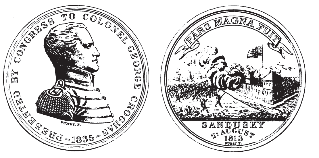 A congressional medal awarded to George Croghan in 1835.